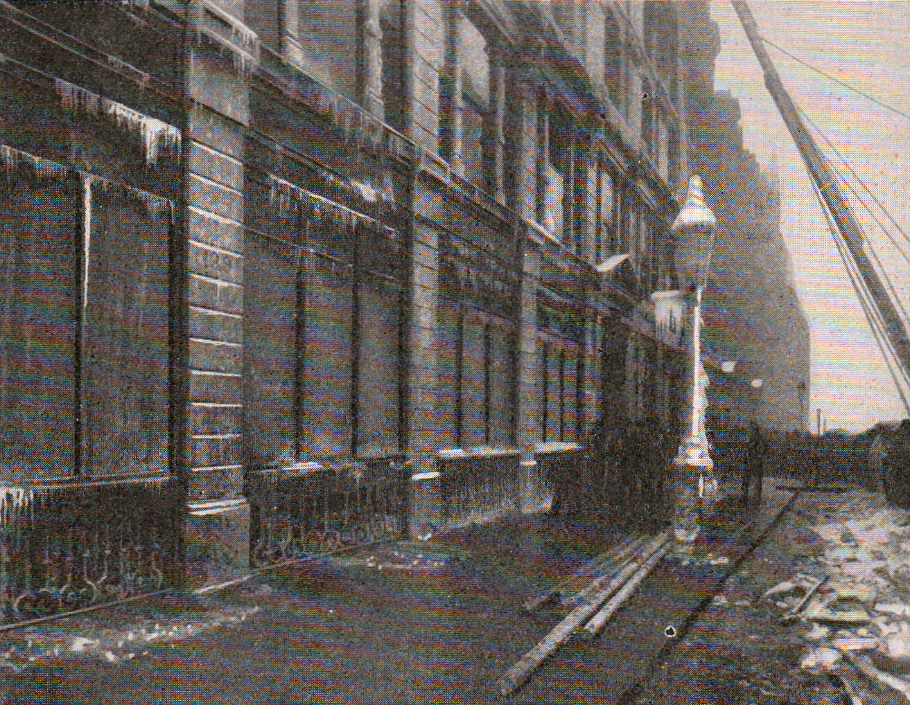 Fire at the Revillon Frères premises. Queen Victoria St. London. 1889.